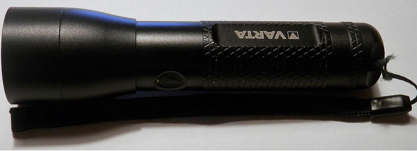 LED torch light produced by Varta